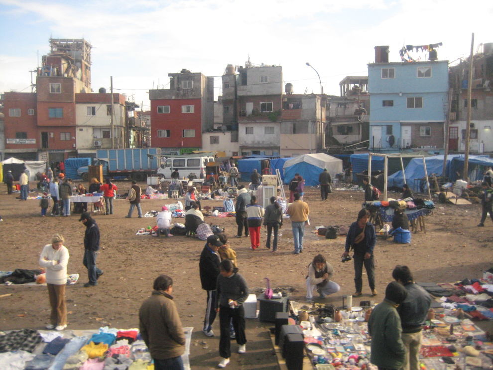 Buenos Aires slum (villa miseria)